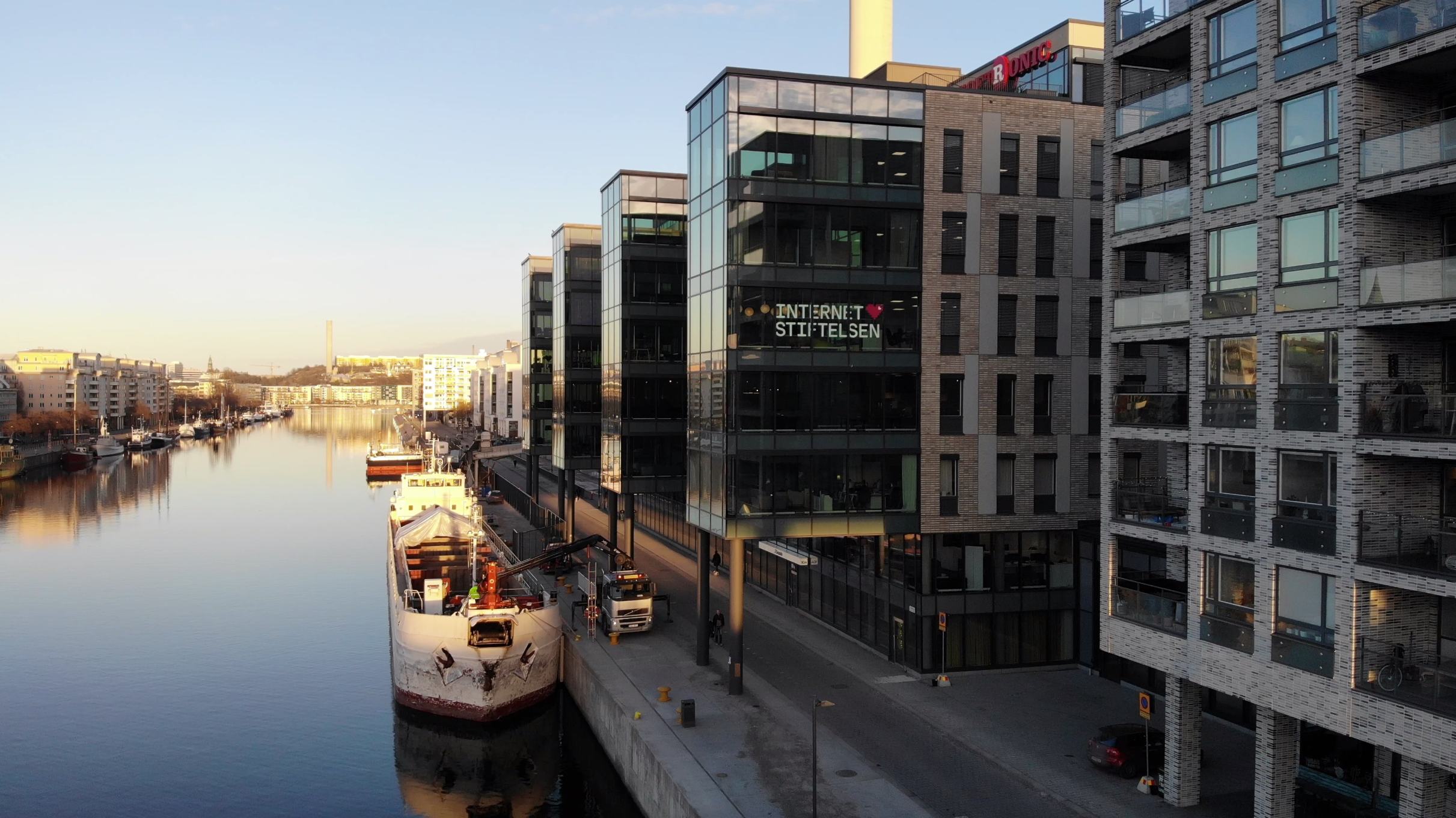 The office of The Internet Foundation at Hammarby Kaj in Stockholm, Sweden.